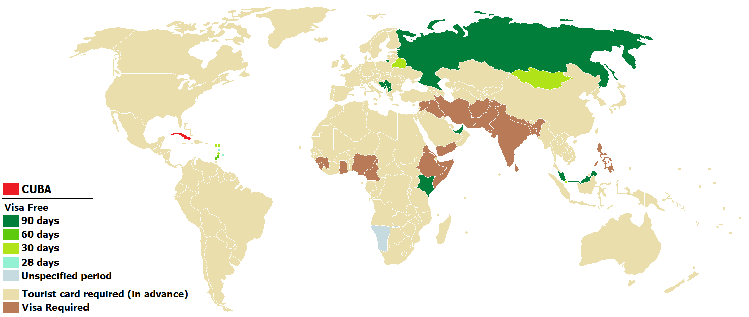 Visa policy of Cuba Cuba Visa-free - 90 days Visa-free - 60 days Visa-free - 30 days Visa-free - 28 days Visa-free - unspecified period Tourist card required (in advance) Visa required